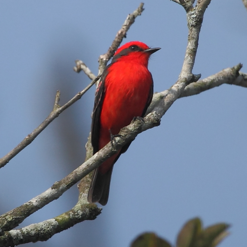 Vermilion Flycatcher at Bertioga - SP - Brazil